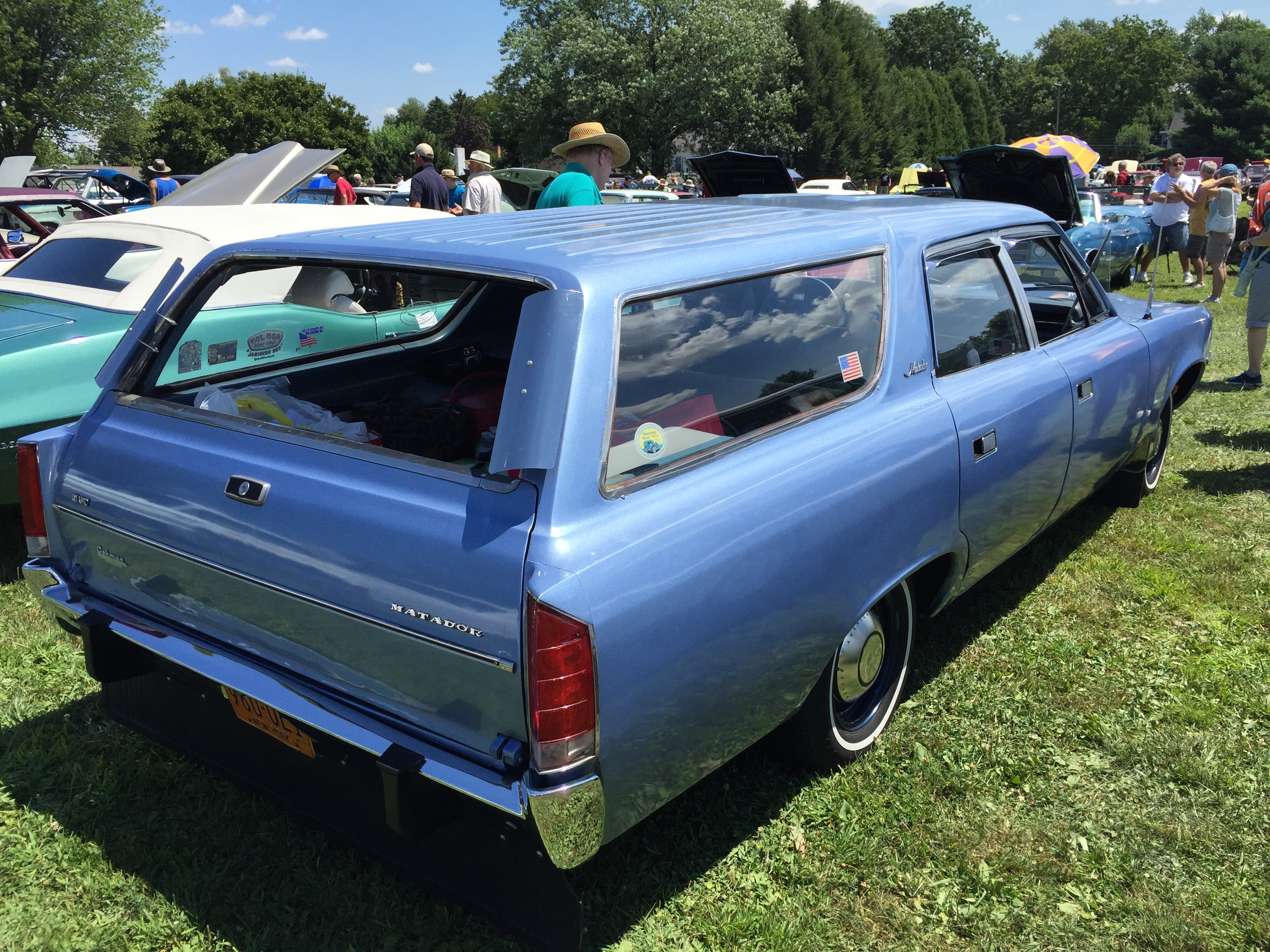 1973 AMC Matador station wagon, a mid-sized car made by American Motors Corporation (AMC). This wagon is finished in Diamond Blue metallic (paint code E1) and has the standard interior in blue that features two rows of bench seats offering room for six adult passengers. It also has the base trim such as the small hubcaps and no roof rack, but the standard vinyl bodyside scuff moldings are not present on this car. The twin rear side-mounted air deflectors are an aftermarket accessory. Picture taken at the 52nd Annual "Das Awkscht Fescht" antique car show in Macungie, Pennsylvania.